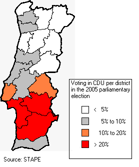 Electoral results per district of the Unitarian Democratic Coalition in the Portuguese legislative election of 2005.